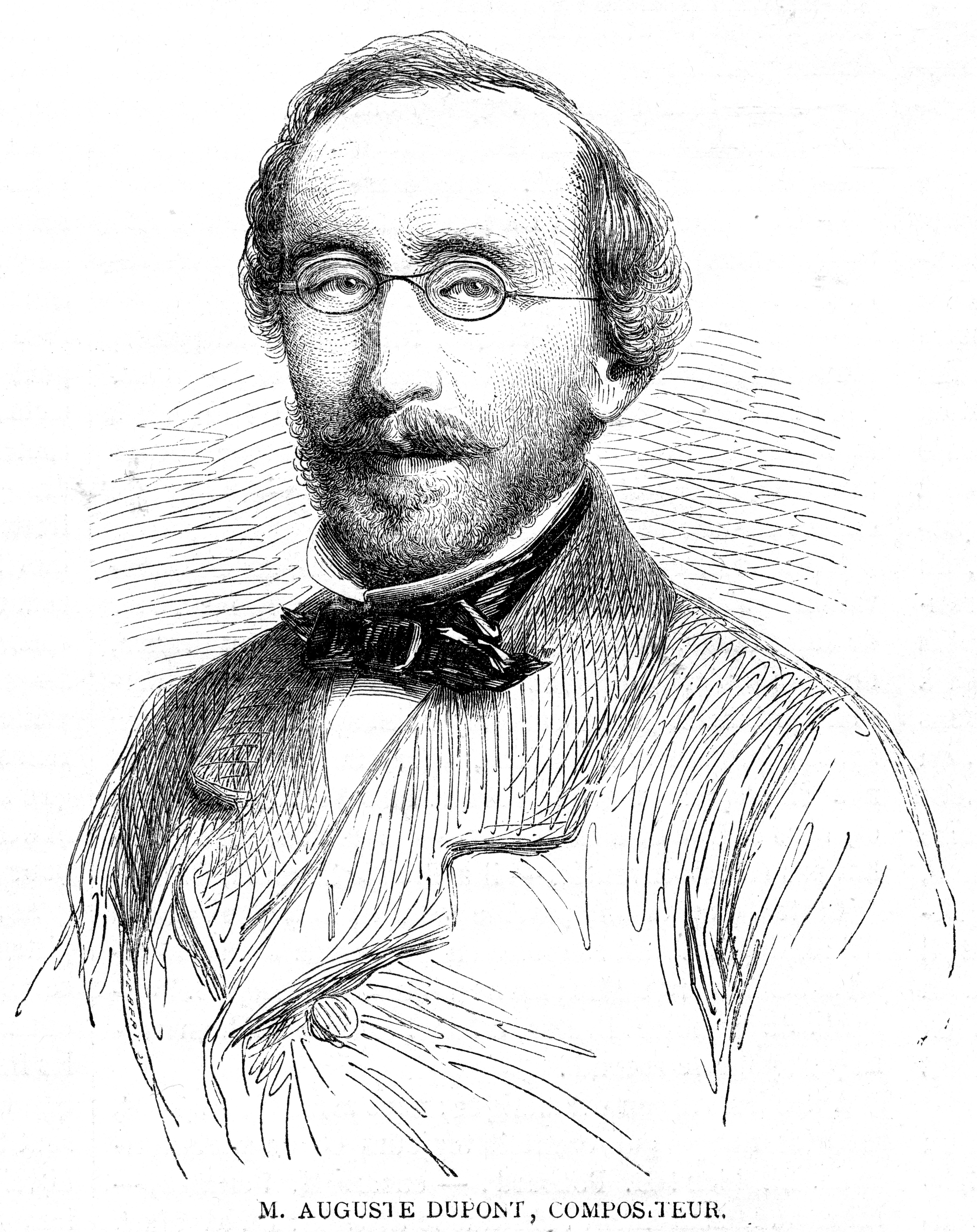 L'Illustration 1862 gravure Auguste Dupont, compositeur